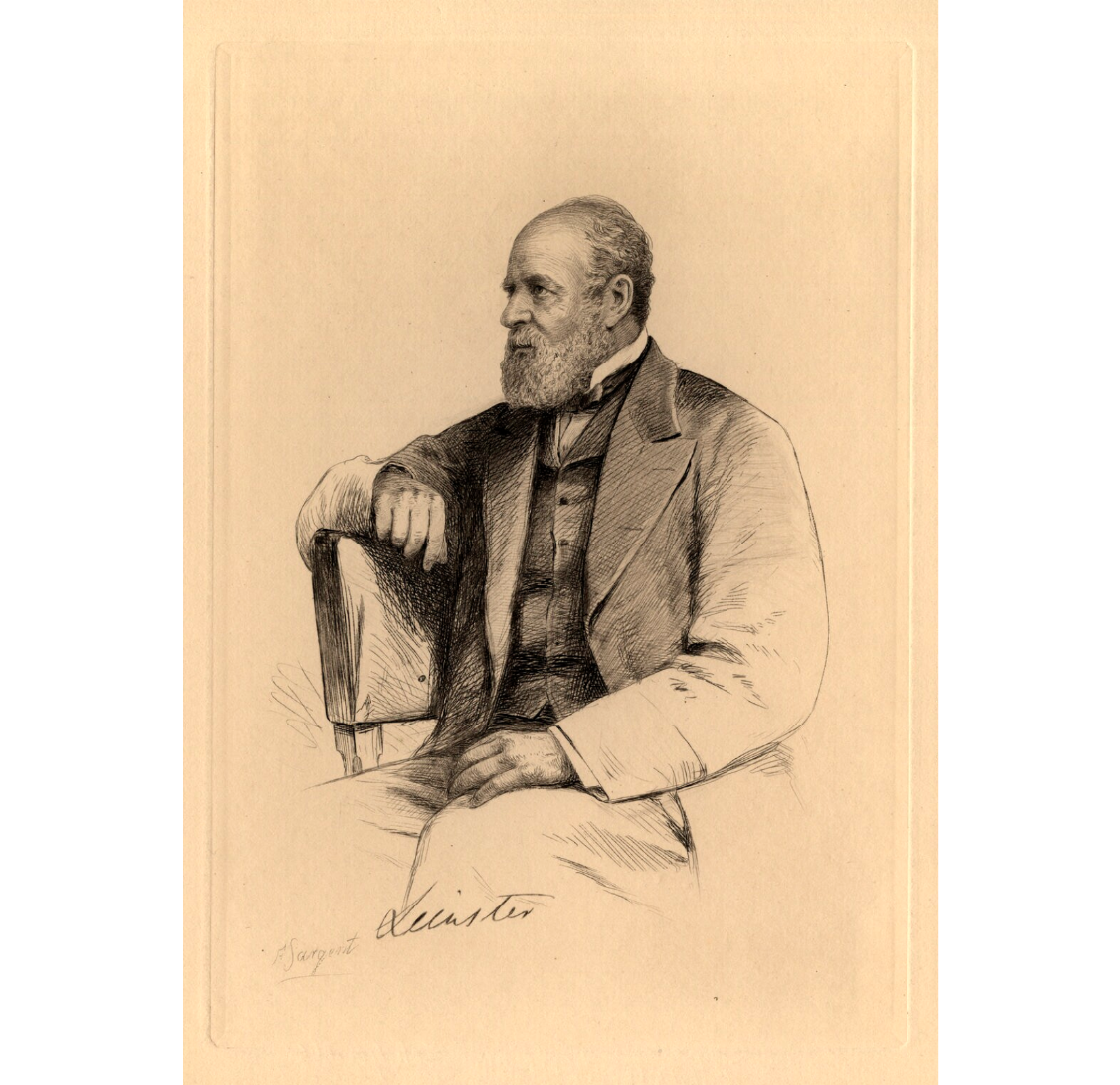 Portrait of Charles FitzGerald, 4th Duke of Leinster (1819–1887), Irish peer and politician.